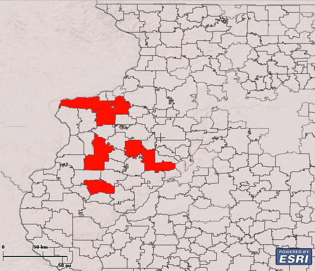 School districts in the state of Illinois with Olympic Conference districts filtered and highlighted in red. This map appears to show only unit districts with black borders; areas with un-unified grade/high school districts are shown with a grey outline without the separate district borders.